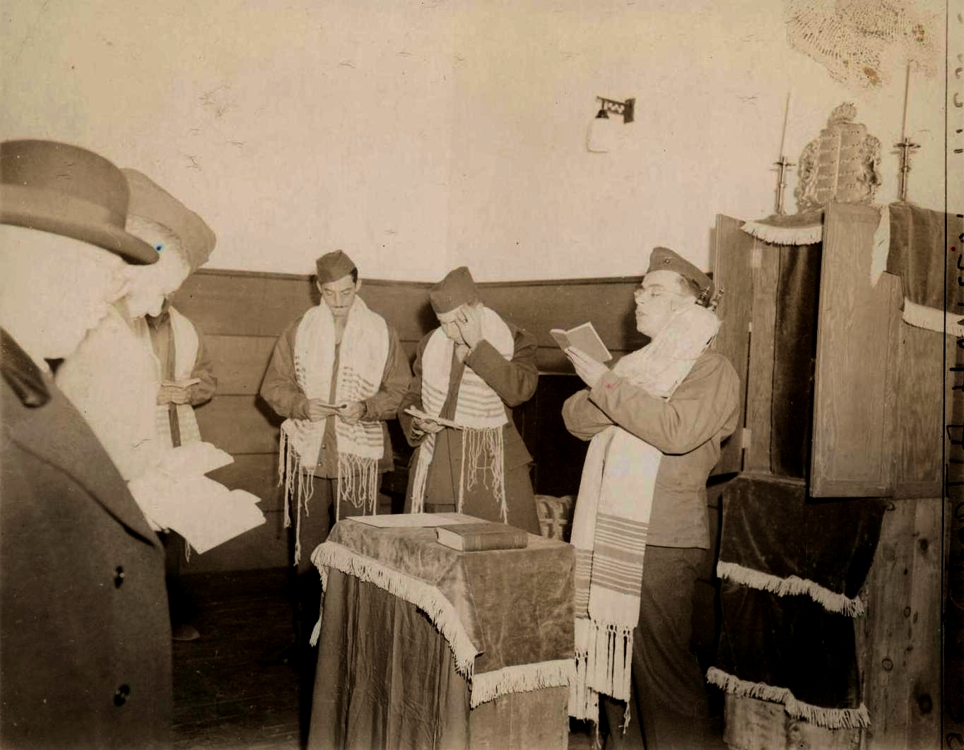 Rabbis Perform a Religious Service in China, circa 1945. From the Joseph Kohn Collection (COLL/3286), Marine Corps Archives & Special Collections.